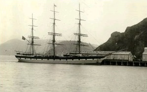 The windjammer Euterpe at Port Chalmers, Otago, New Zealand in 1883, later renamed the Star of India. From Presumed expired copyright. -Willmcw 22:03, Apr 7, 2005 (UTC) category:Star of India